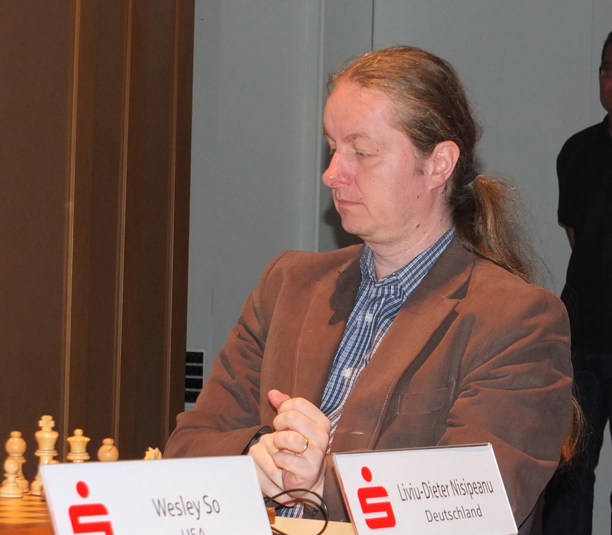 Liviu-Dieter Nisipeanu, chess grandmaster from Romania at the Dortmund Sparkassen Chess Meeting